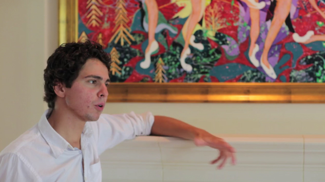 The author of this photograph is Charlie M. Chesterfield (me), taken on a Nikon, during George Pocheptsov's exhibition in nyc. He was speaking to an interviewer from a newspaper about where he gets his ideas for his newest artworks.